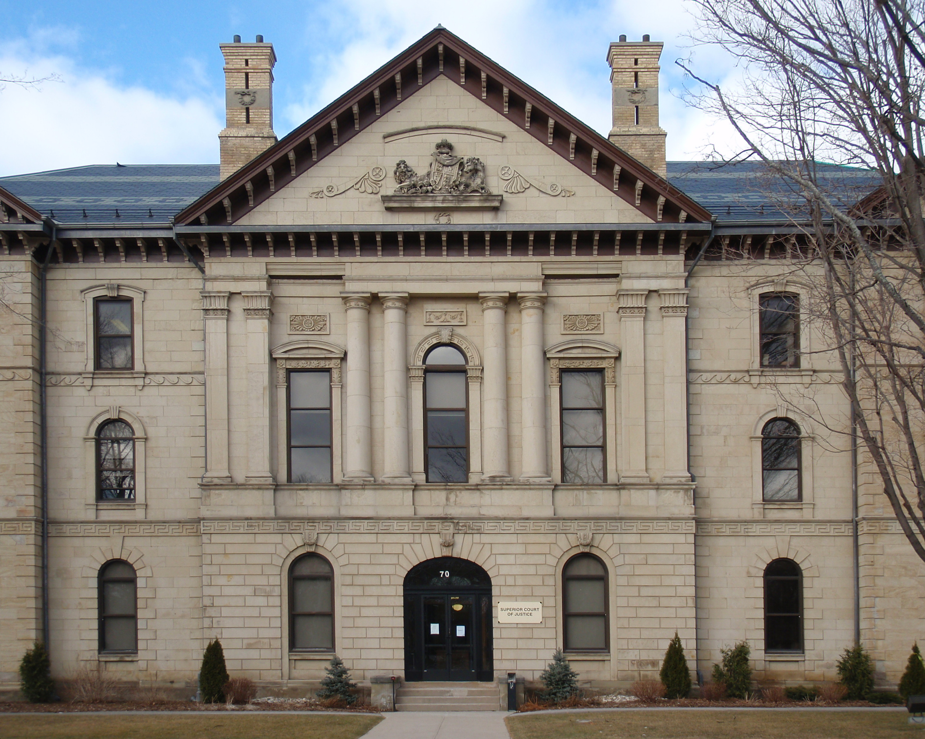 Brant court house